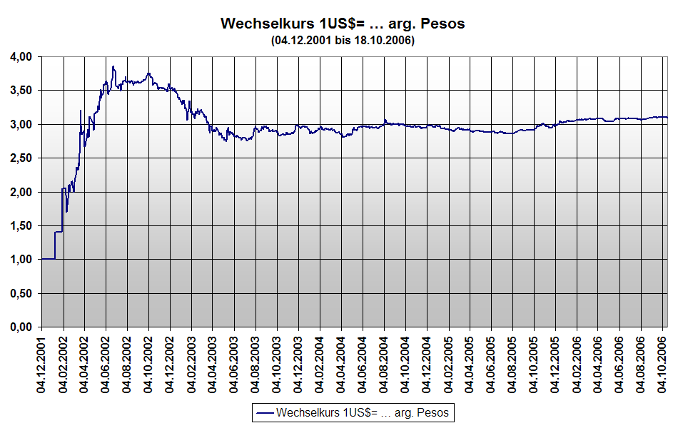 Development of the Exchange of the Argentine Peso towards the US Dollar starting before the devaluation on 4th of December 2001 going until the present date, 18th of October 2006. Entwicklung des Wechselkurses des argentinischen Peso zum US-Dollar beginnend vor der Abwertung am 4. Dezember 2001 bis heute (18. Oktober 2006). Graphic / Graphik: done by myself / selbst erstellt (based on the first version in the German Wikipedia: [1]) Data / Daten: Argentine Central Bank / Argentinische Zentralbank Version: 1.0 other languages: If you want a copy of this graphic in another language, please contact me on my German discussion page.